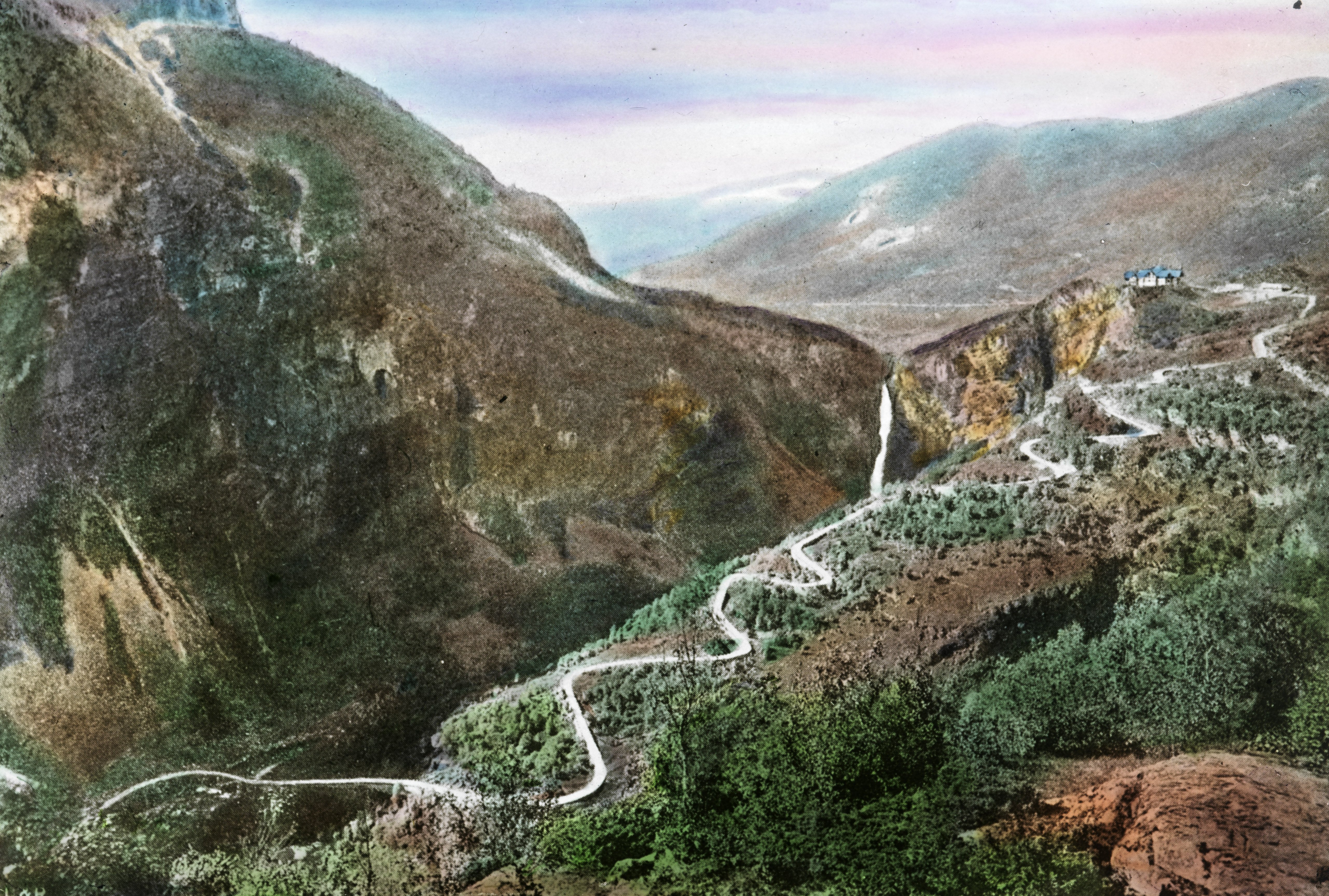 SFFf-1992078.0043 Stalheimskleiva near Voss. The building on the top right is Stalheim Hotel.